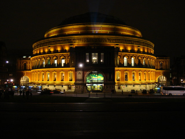 Royal Albert Hall, Floodlighted